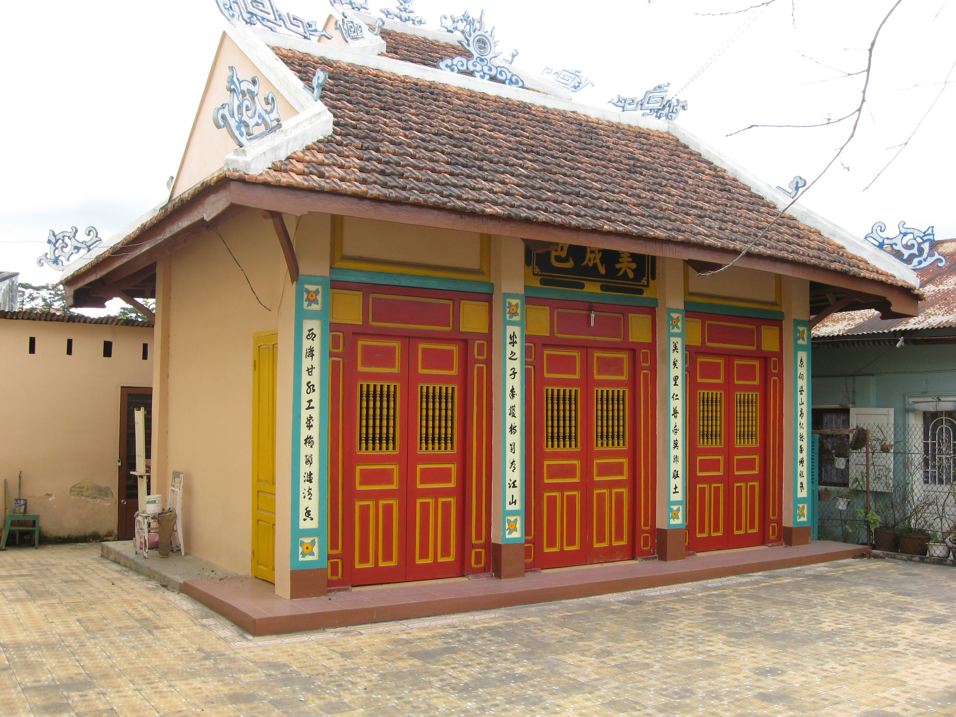 My Thanh Communal House, Da Lat